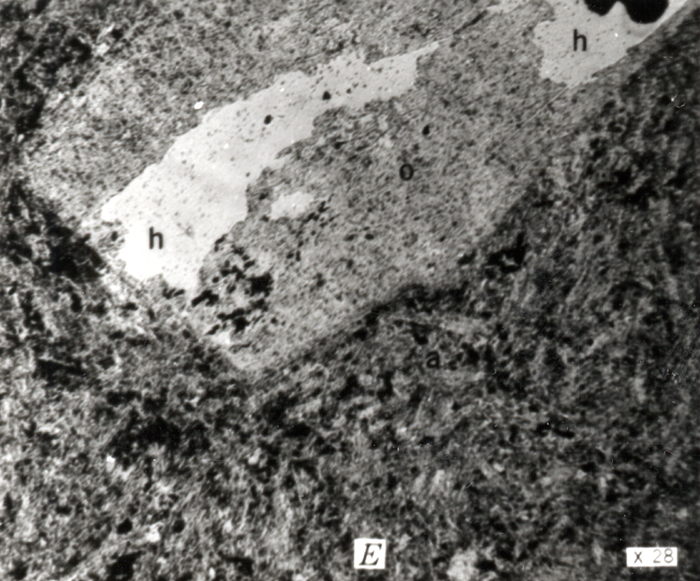 Photomicrograph of bostonite of group 9 from dike, 750 feet north of reservoir, Central City; Phenocryst of orthoclase in groundmass of anorthoclase blades, which show marked flow structure. a, anorthoclase, o, orthoclase; h, hole in slide. Plain light. Gilpin County, Colorado. Pre-1950. Figure 13-E, in U.S.Geological Survey